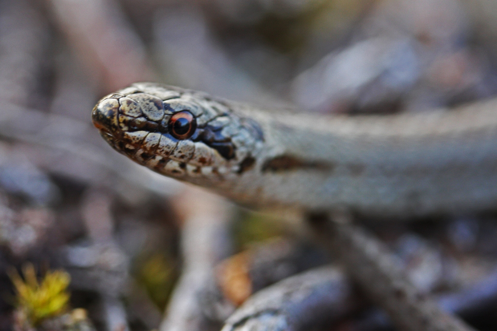 The second smooth snake (of four) that we were lucky enough to find on various heaths near Poole in Dorset. This one was on the move and I just got a couple of shots before it disappeared into dense heather.